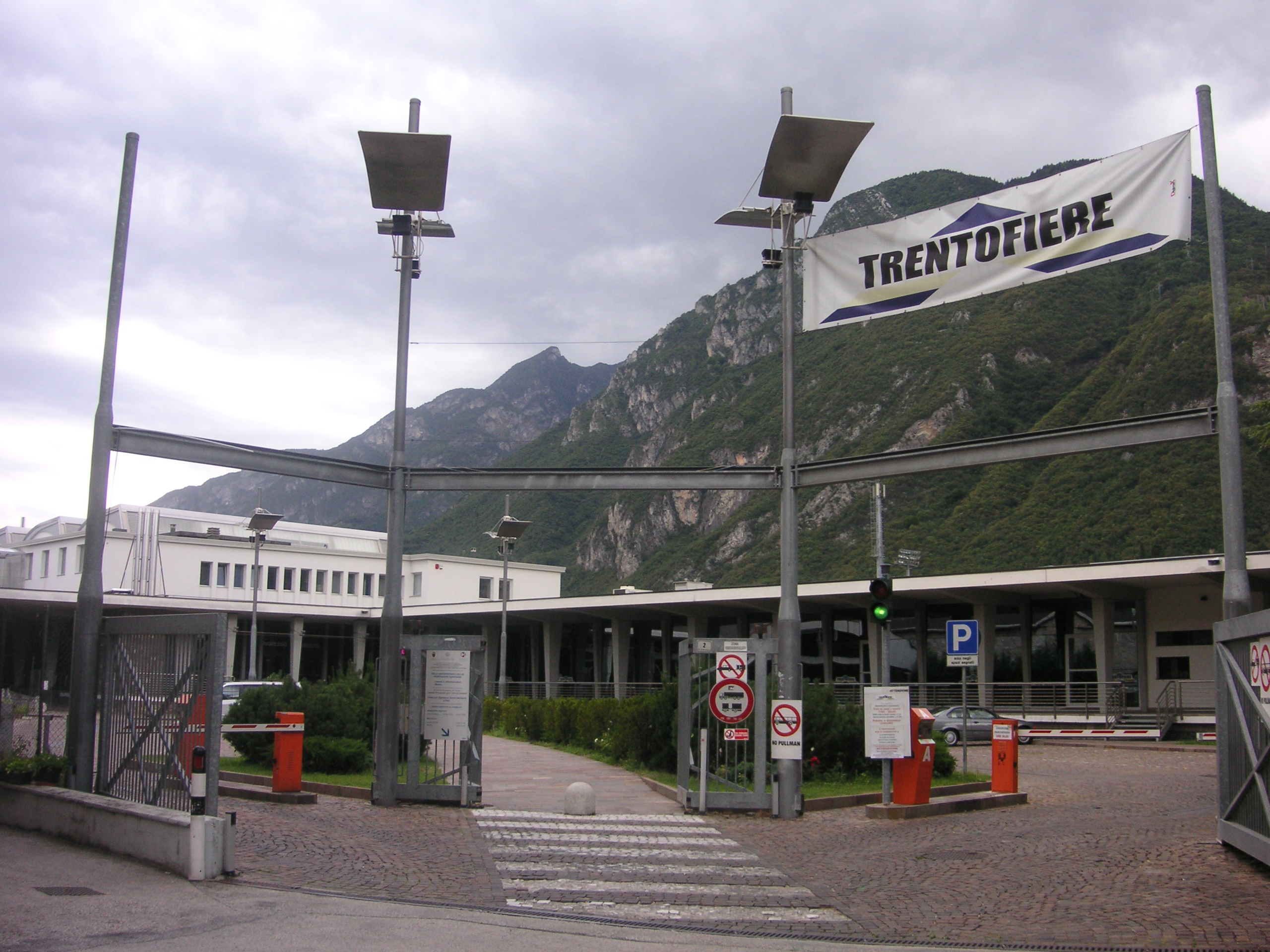 Trentofiere